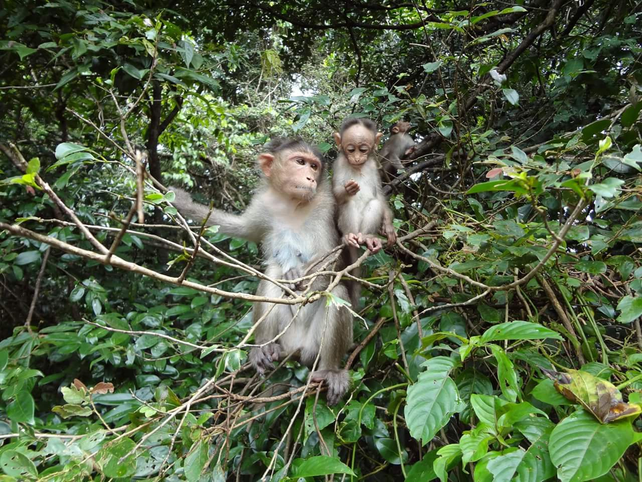 കുരങ്ങുകൾ